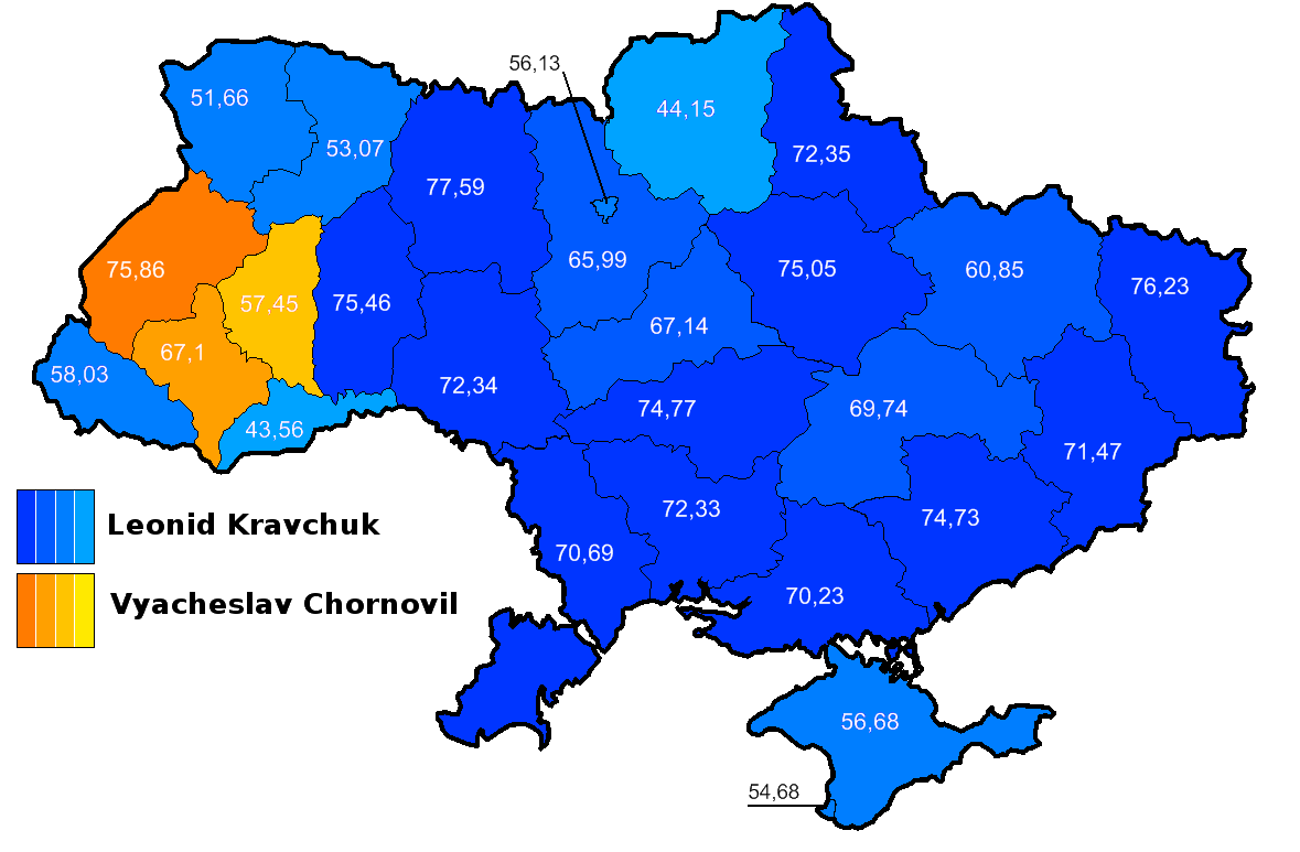 This map shows the results of the Ukrainian presidential elections of 1991, when Leonid Kravchuk defeated Viacheslav Chornovil. The map elaborates on the map of the 1991 elections made by Vasyl` Babych. I've taken his file, but instead of using only three colours (majority vote for Chornovil, majority vote for Kravchuk, plurality vote for Kravchuk}, I used seven colours, to indicate the different levels of support.